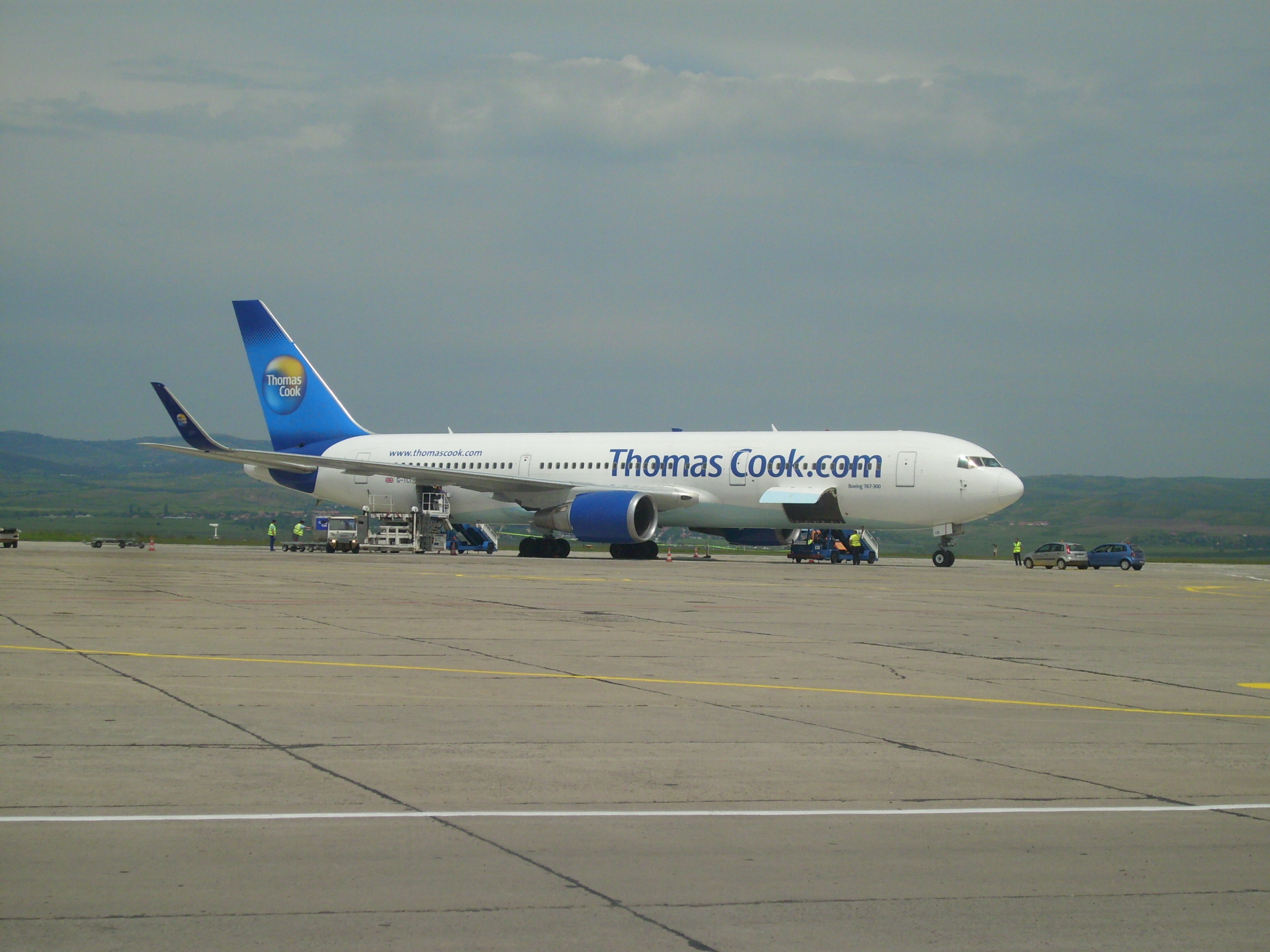 Thomas Cook's Boeing 767-300 on Buras Airport